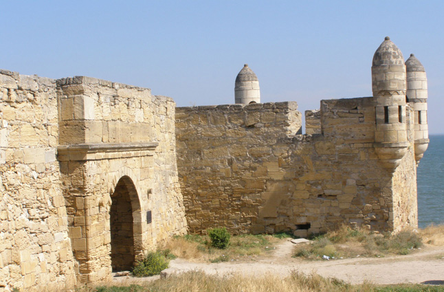 Yeni-Kale, fortress built by Ottoman Turks in 1699–1706 (present-day Kerch, Ukraine)